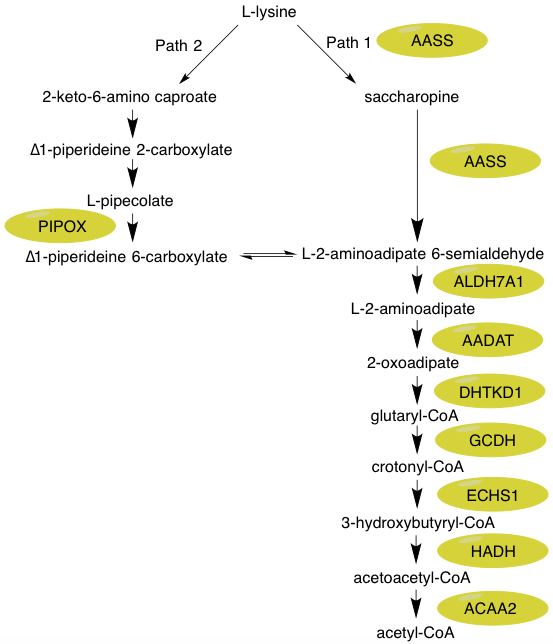 Referencing: Houten, S. M., Te Brinke, H., Denis, S., Ruiter, J. P., Knegt, A. C., de Klerk, J. B., … Duran, M. (2013). Genetic basis of hyperlysinemia. Orphanet Journal of Rare Diseases, 8, 57.